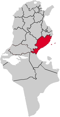 Map of Tunisia with highlighted Sfax Governorate